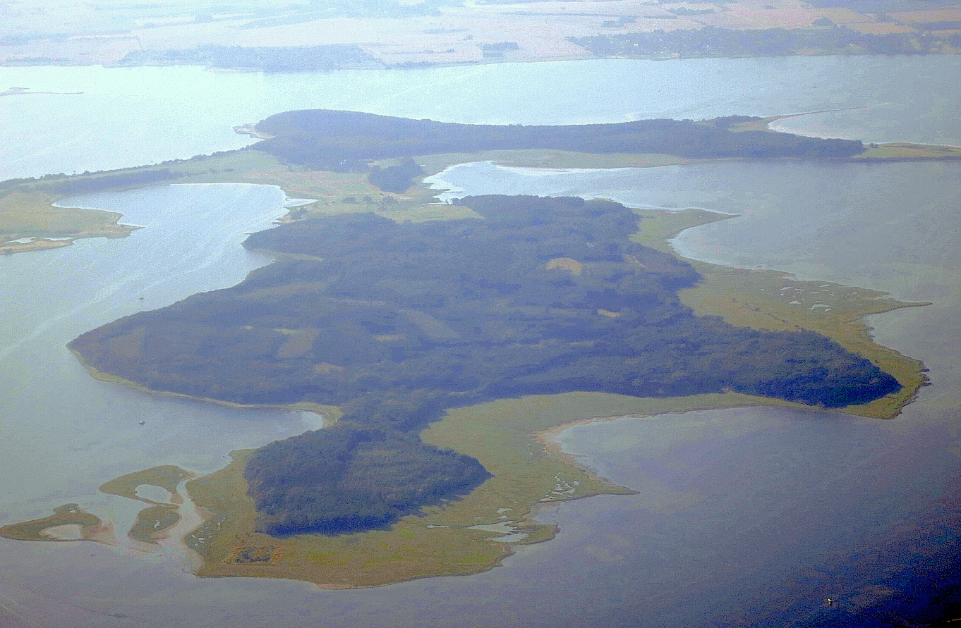 A bird's-eye view of the Bognæs Penninsula in Roskilde Fjord, Denmark.